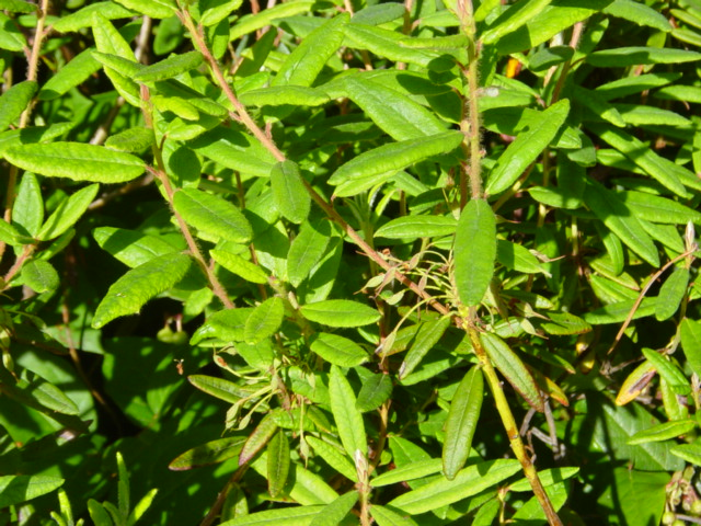 Labrador Tea